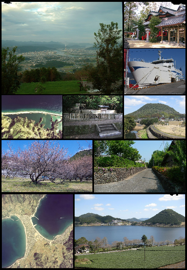 From top left: plains of Sendai, Nitta shrine, Ferry New Koshiki, Namako-ike, Enoyamanomisasagi, Mt.Maruyama, Garyubai tree at Fujikawa tenjin, Iriki Fumoto, Sato shoal, Imuta-ike.